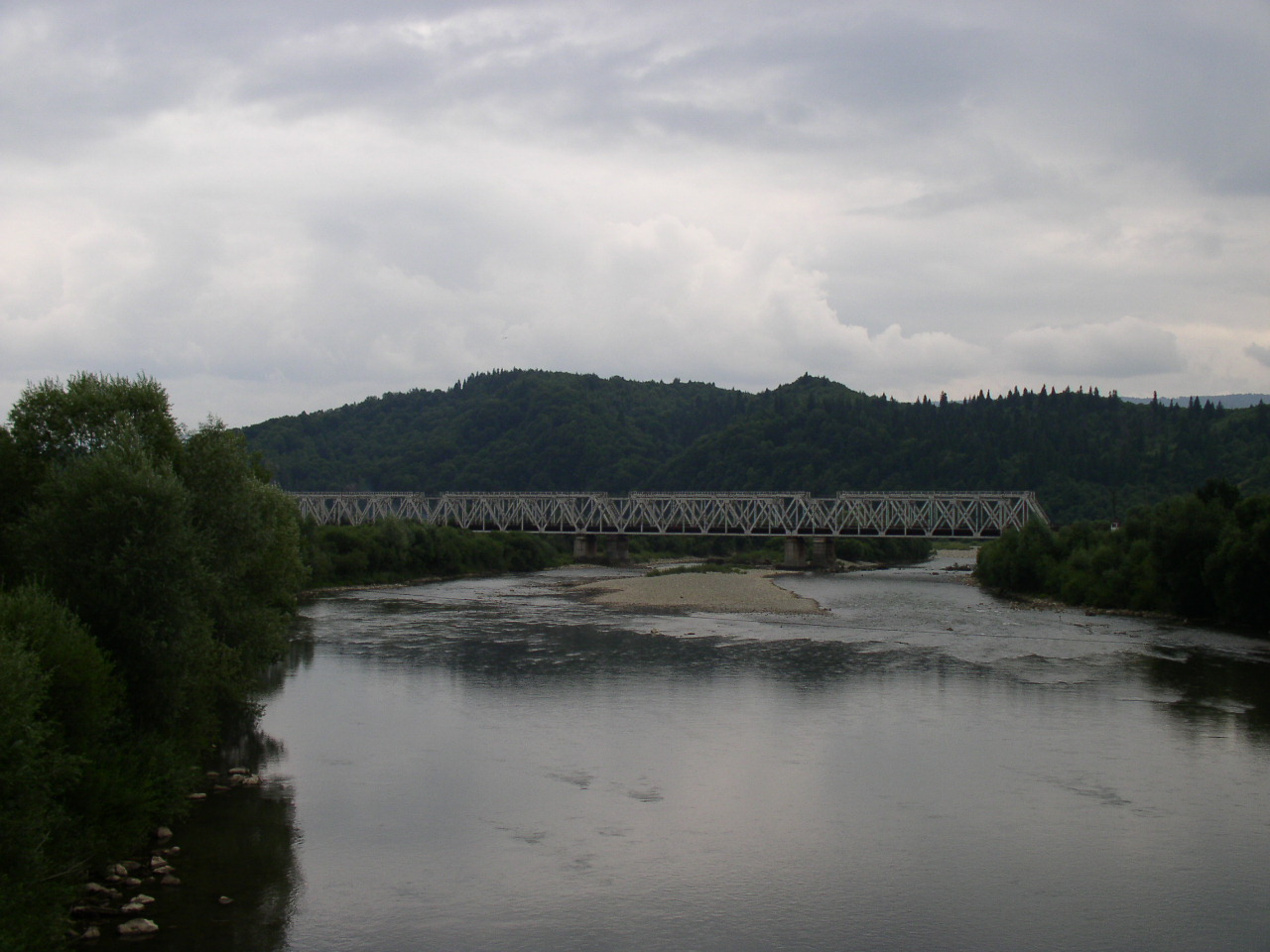 Stryi River, Ukraine.